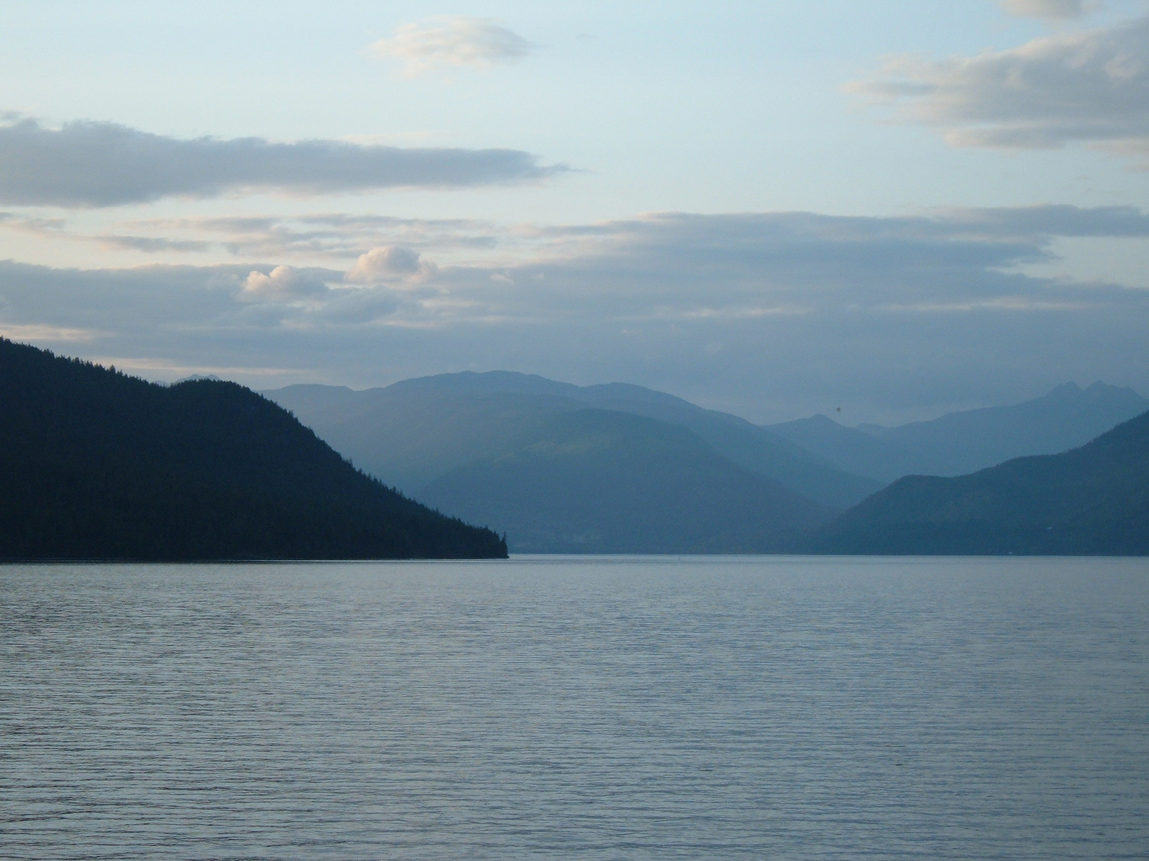 Slocan Lake as seen from Bannock Point in the evening.